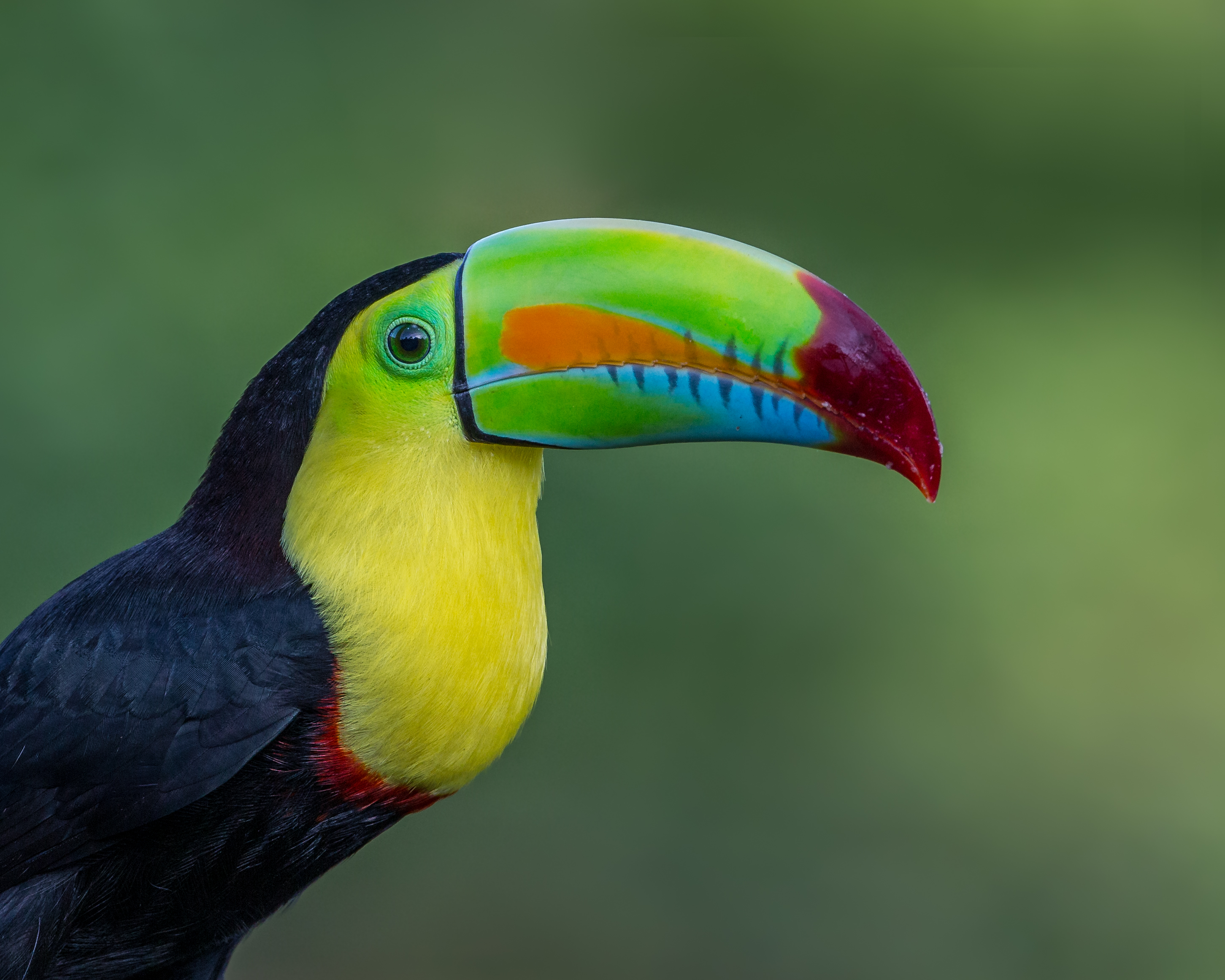 Taken in Costa Rica.